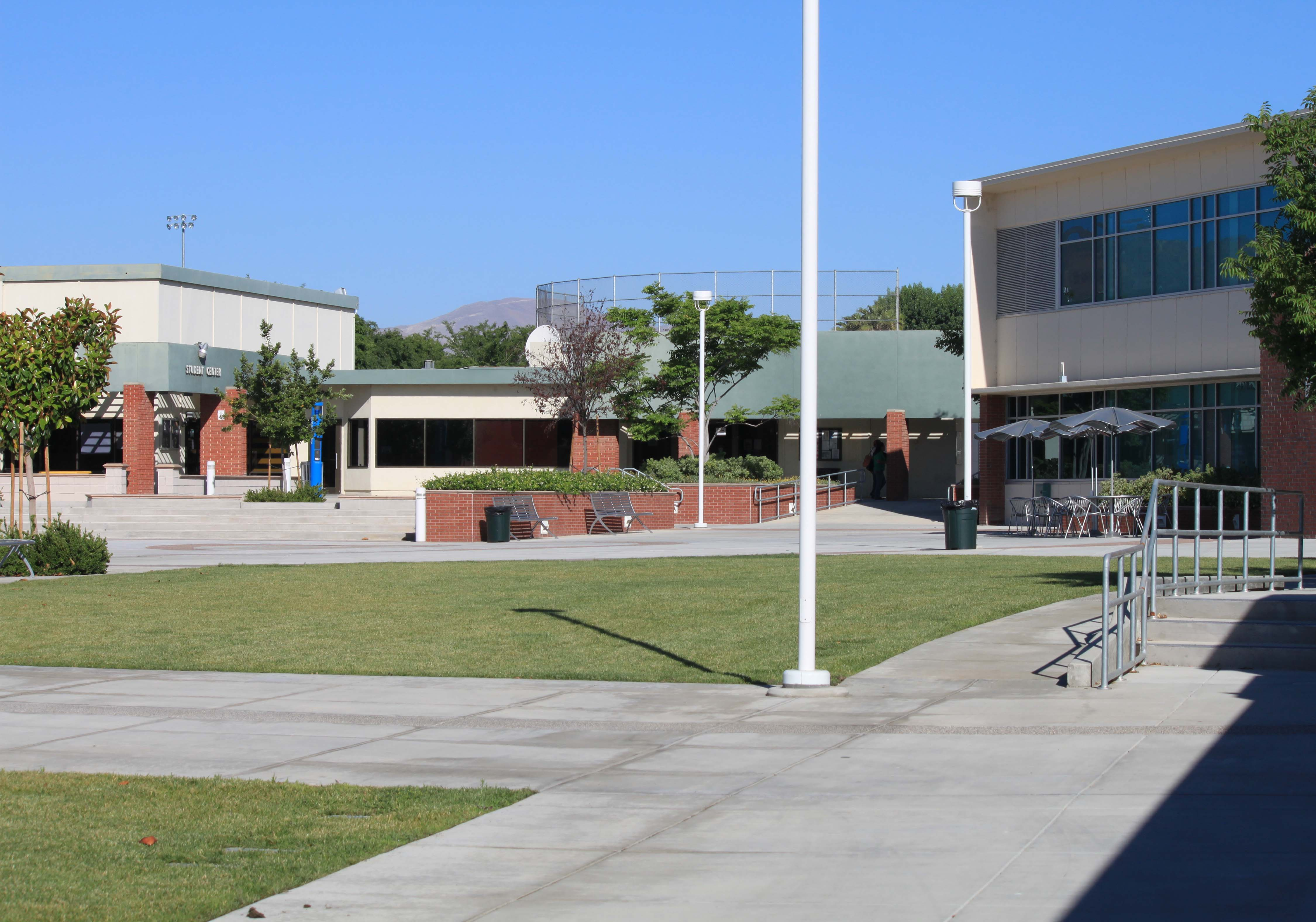 This is a photo of the central quad area at Taft College, California.